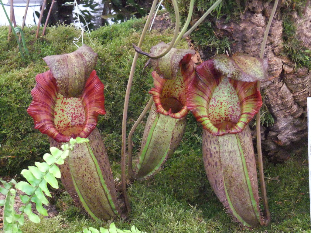 Nepenthes spathulata × Nepenthes spectabilis 'Helen', 2011 Chelsea Flower Show